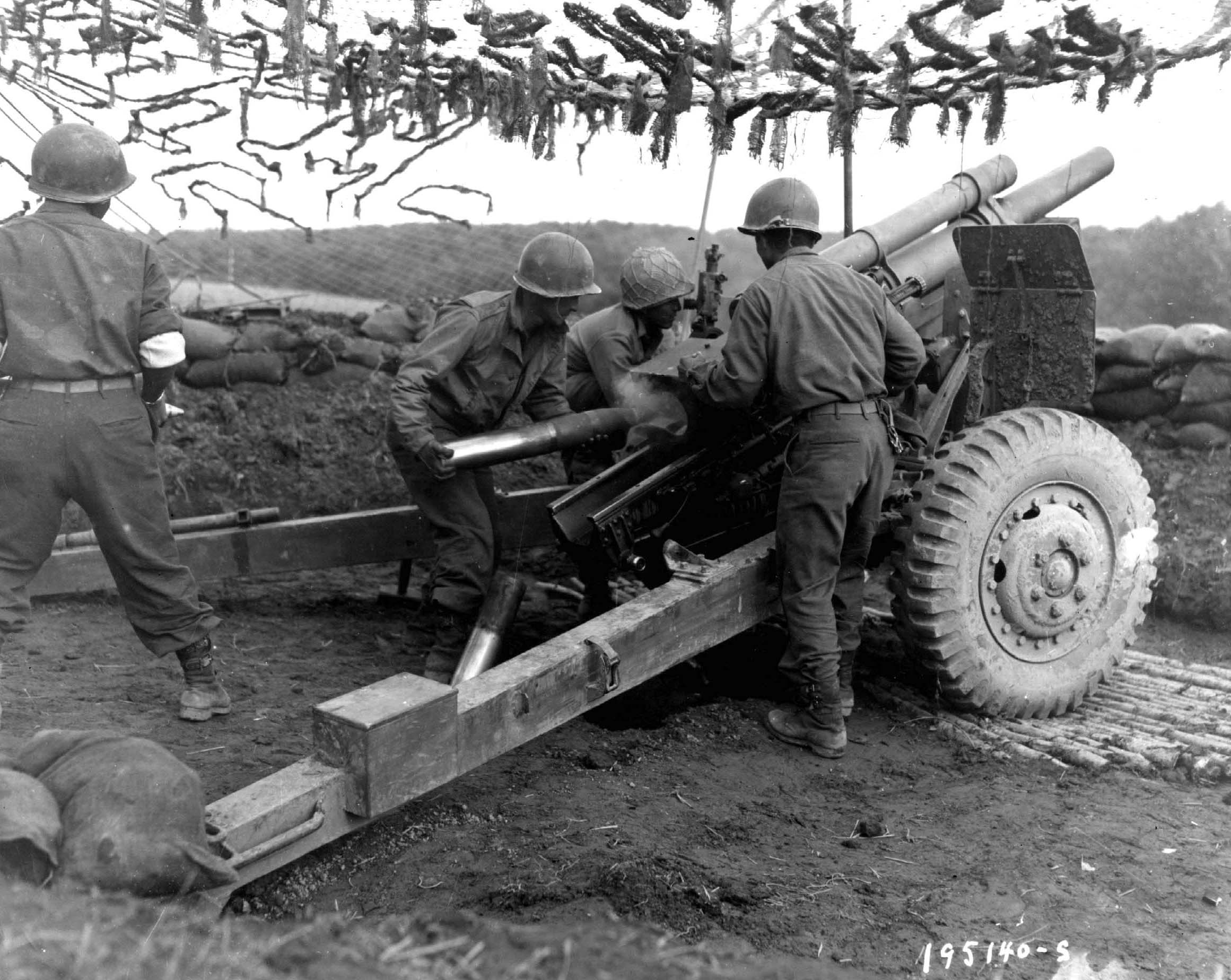 A team of Japanese-American G.I.'s throwing 105mm shells at Germans in support of an Infantry attack somewhere in Bruyeres Sector, France.